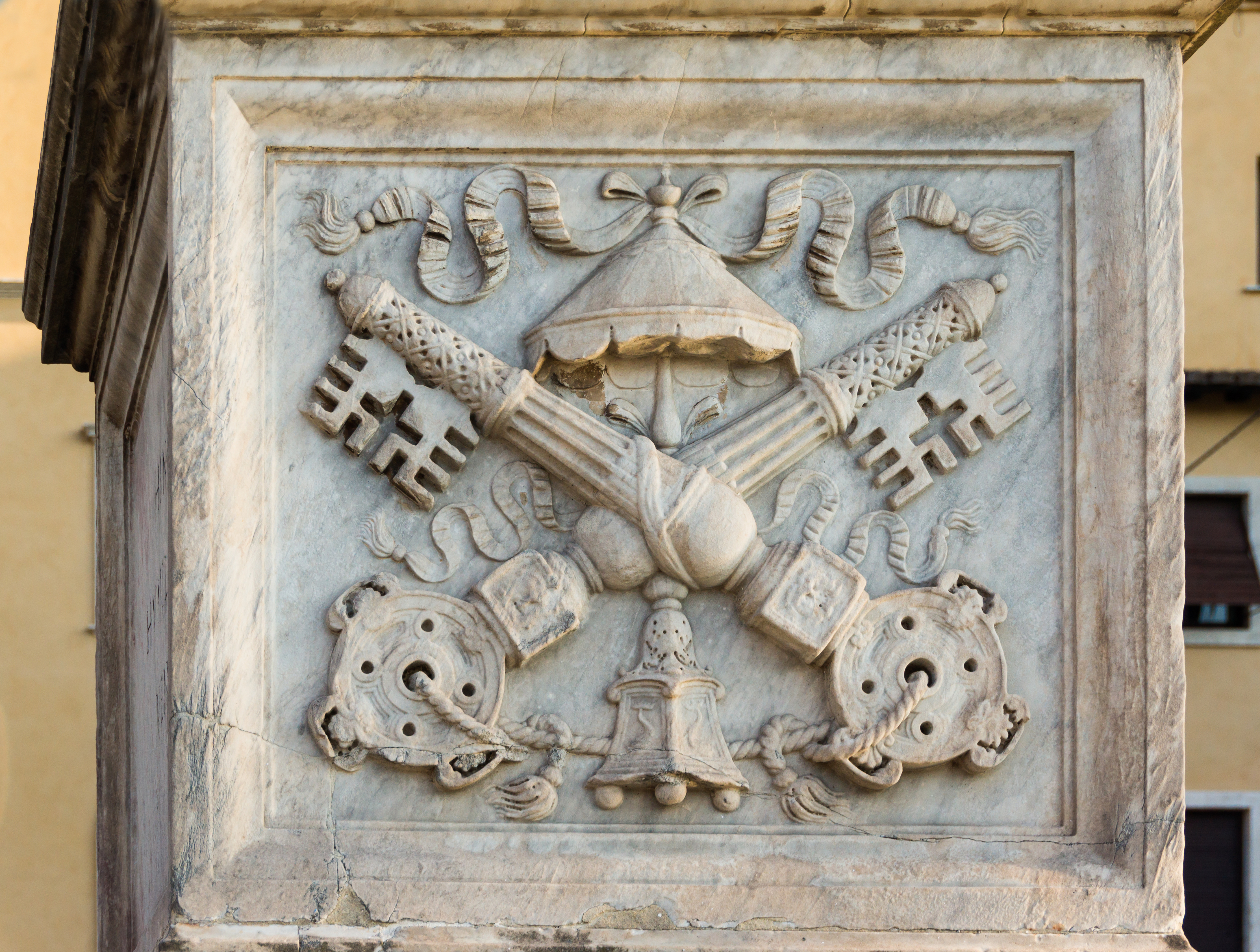 Relief of an emblem of the Holy-See: umbraculum and keys of Saint Peter, symbols of the Catholic Roman Church and the College of Cardinals. Sant'Angelo bridge, Rome, Italy.